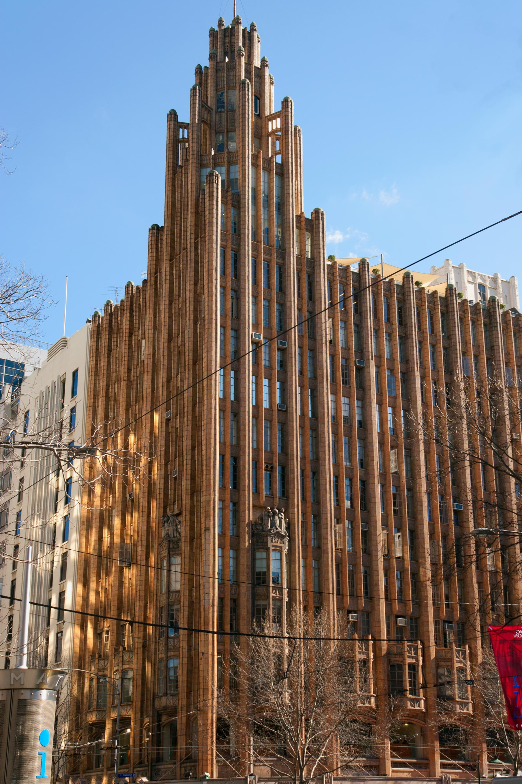 The art deco Manchester Unity Building (1927) is one of Melbourne's most well-known surviving historic buildings.